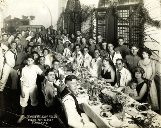 Description: Group portrait of Passover Seder, Manila, Philippines, 1925 Creator/Photographer: Unidentified Photographer Medium: Black and white photographic print Date: 1925 Repository:American Jewish Historical Society Parent Collection: National Jewish Welfare Board Records Call Number: I-337 Rights Information: No known copyright restrictions; may be subject to third party rights. For more copyright information, click here. See more information about this image and others at CJH Digital Collections. Digital images created by the Gruss Lipper Digital Laboratory at the Center for Jewish History